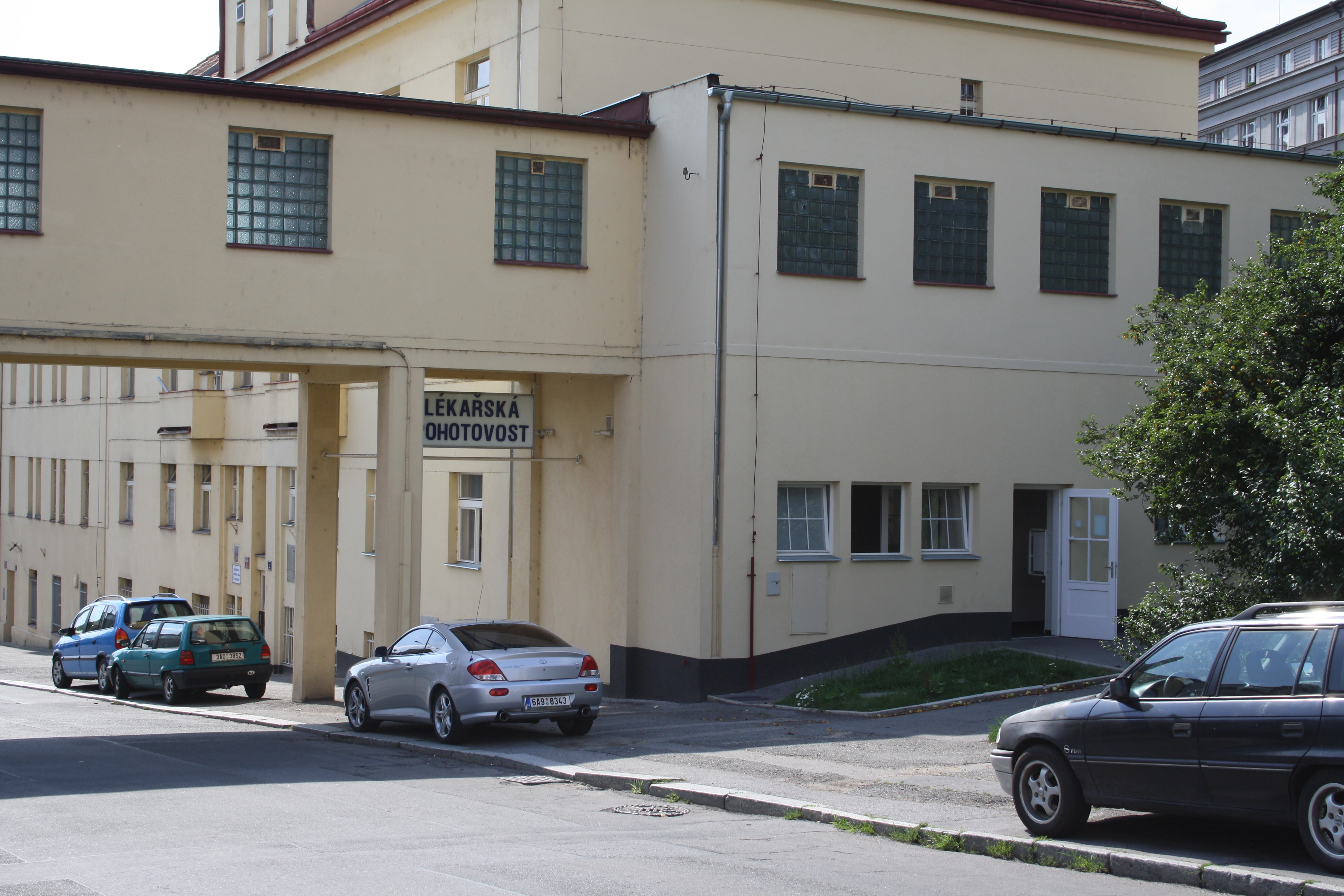 Prague Liben, Bulovka, first aid station